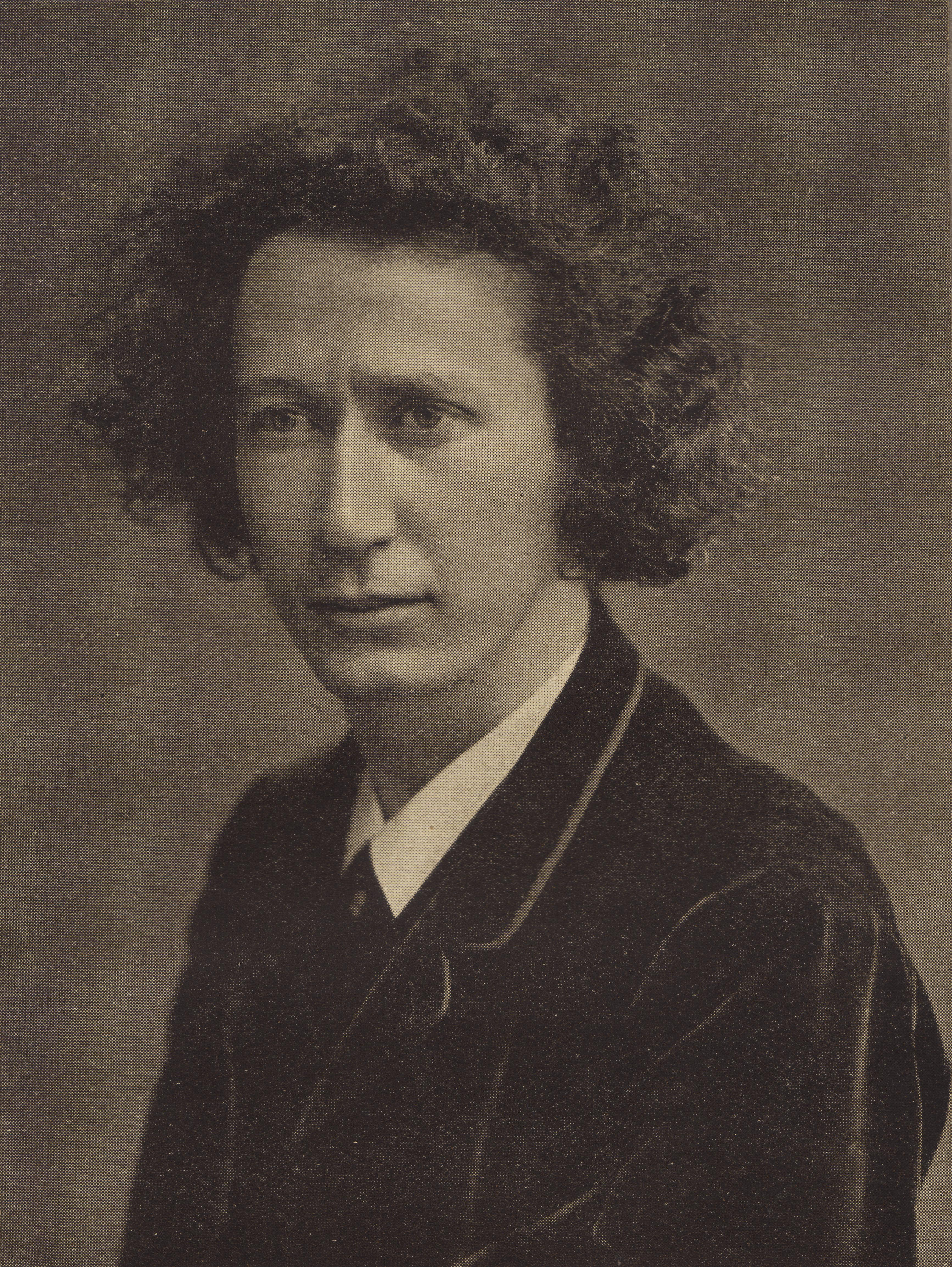 Scanned from Modern Musicians by J. Cuthbert Hadden (First published by T.N.Foulis in 1913) - September 1918 Foulis reprint. Book is in the Public Domain in the US and UK. Scanned as 1200 dpi bitmap (photo) then converted to jpeg.